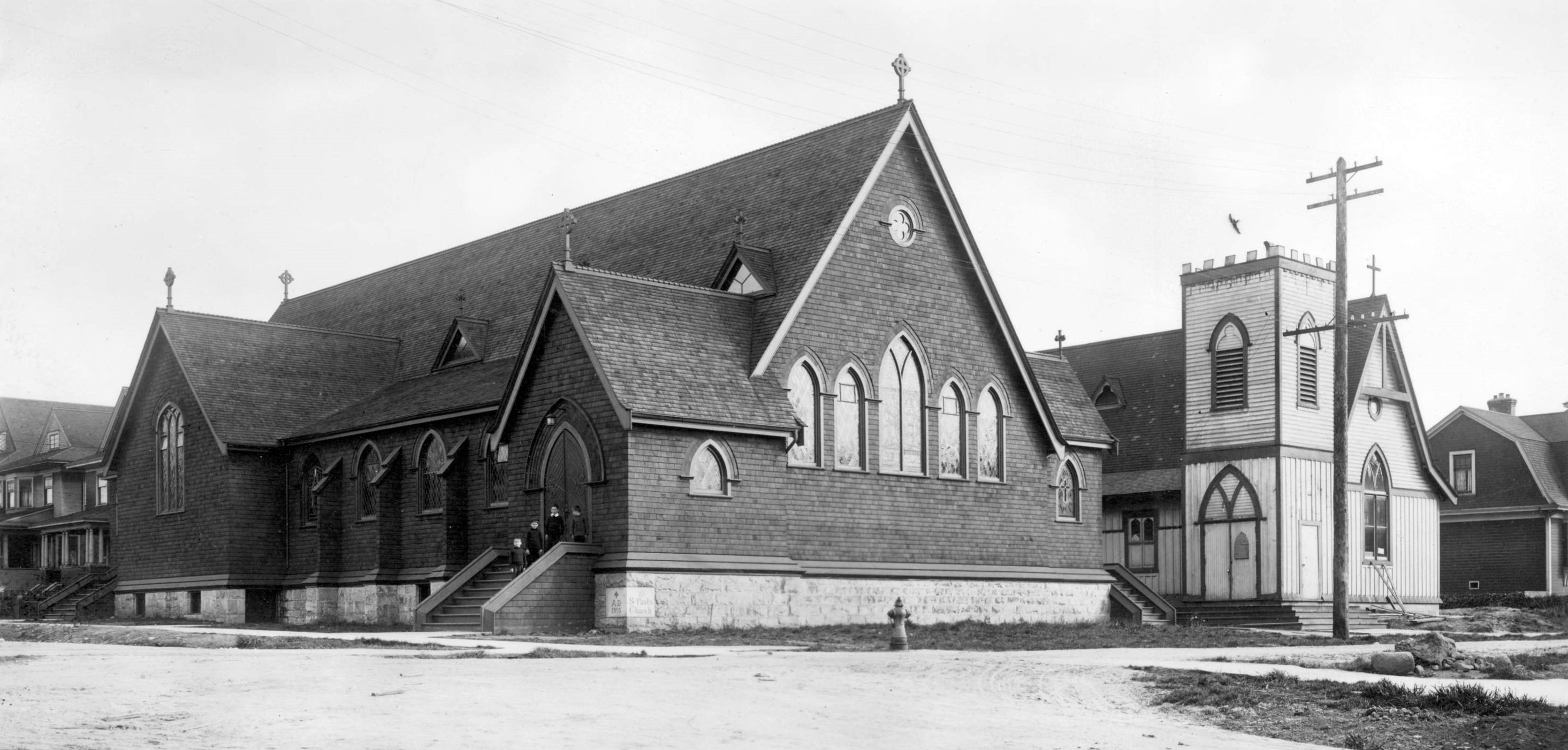 A growing membership required a larger church.